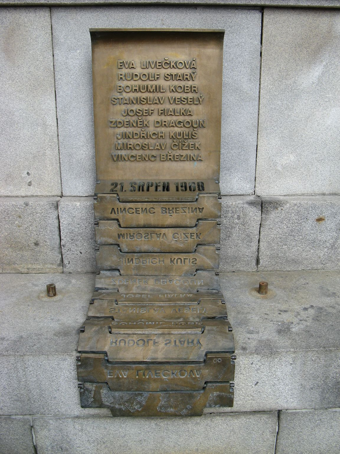 Liberec Townhall, Memorial to victims of August 21, 1968